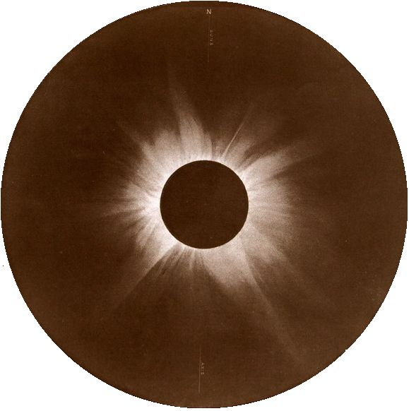 Solar eclipse of January 3, 1908